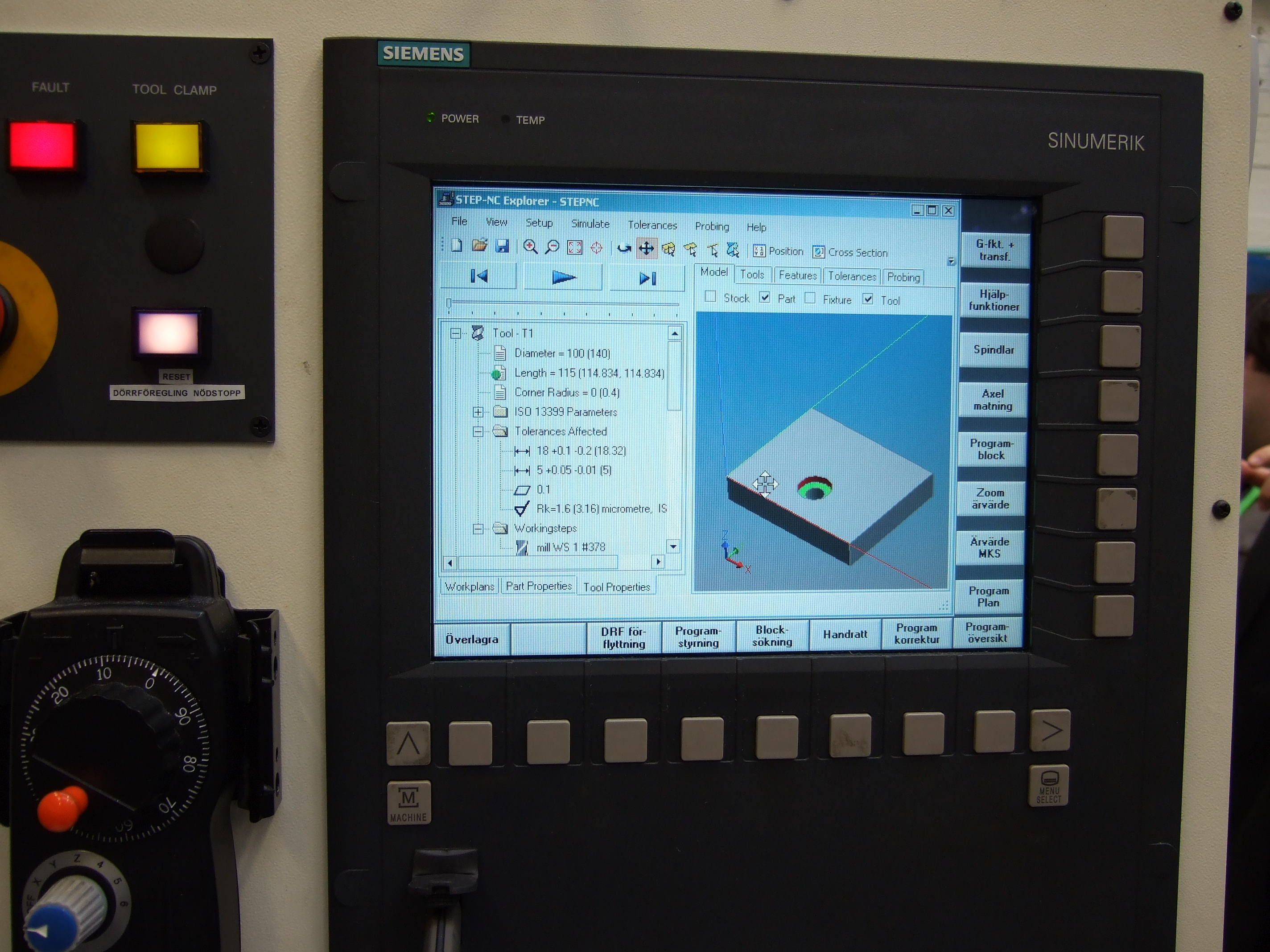 STEP-NC interface on a CNC shows product geometry, measured tolerance values and advised tool parameters. Demonstrating tolerance-driven tool compensation at Scania, Stockholm.